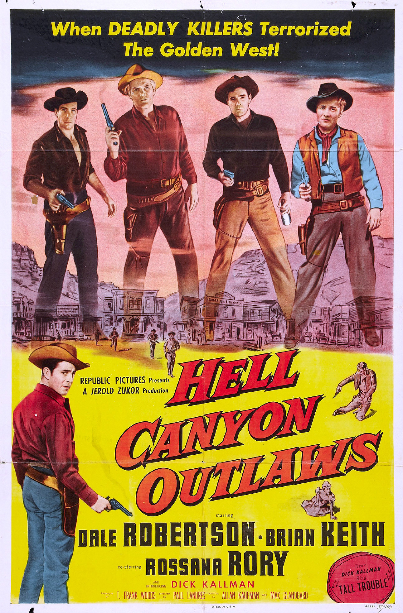 Poster for the 1957 film Hell Canyon Outlaws. There are no copyright marks. At bottom is Litho in USA and 49861 57/468.